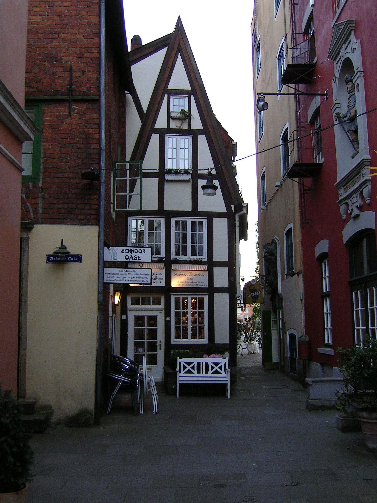 Houses from the 15th and 16th centuries along the narrow alleys in Bremen’s oldest surviving quarter